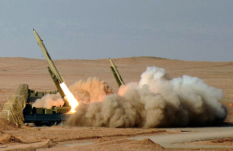 Fateh-110 Missile in Great prophet-7 military exercise. Fateh-110 is an iranian Ballistic single-stage solid-propellant, surface-to-surface missile